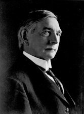 William Joel Stone (1848 - 1918)